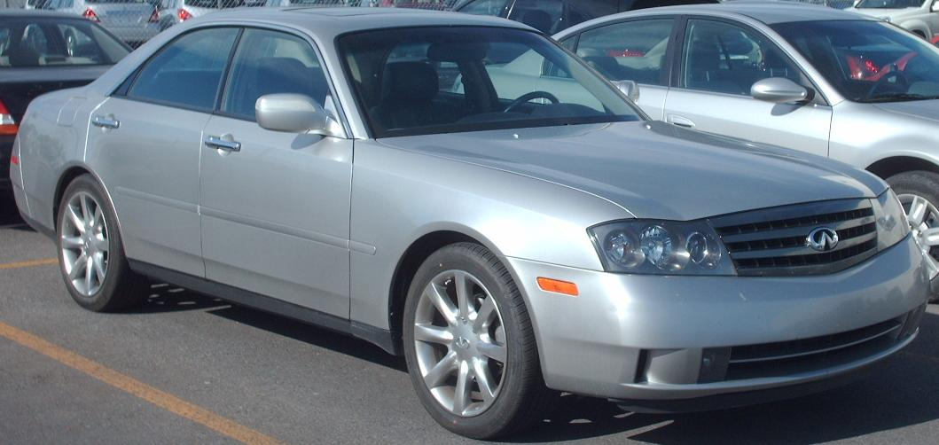 2003-2005 Infiniti M45 photographed in Montreal, Quebec, Canada.